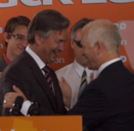 Premier of Manitoba Gary Doer and New Democratic Party leader Jack Layton during the 2008 Canadian federal election.